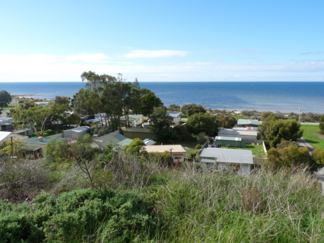 A view over the roofs of the beachside shacks at Pine Point, South Australia